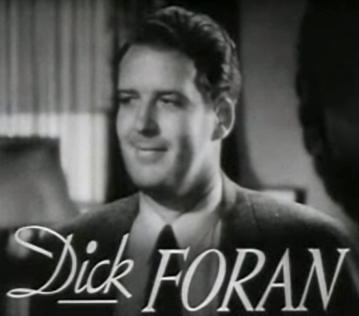 Cropped screenshot of Dick Foran from the trailer for the film Four Daughters